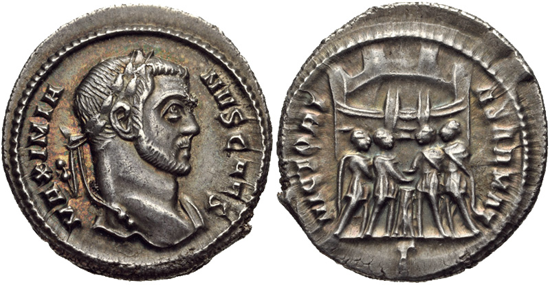 Galerius. As Caesar, AD 293-305. AR Argenteus (18mm, 3.33 g, 11h). Rome mint, 3rd officina. Struck circa AD 295-297. MAXIMIANVS CAES Laureate bust right, with drapery on far shoulder VICTORIA SARMAT Four tetrarchs (four soldiers by Cohen) sacrificing over tripod before city enclosure with six turrets; Γ in exergue. RIC VI 39; Jelocnik 84b; RSC 208†d corr. (no Γ). EF, toned. Rare.